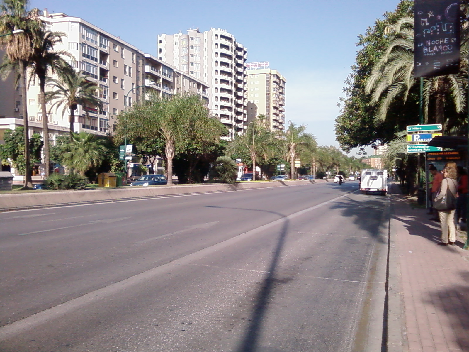 Andalusia Avenue, Málaga, Spain (near Manuel Alcántara Square)